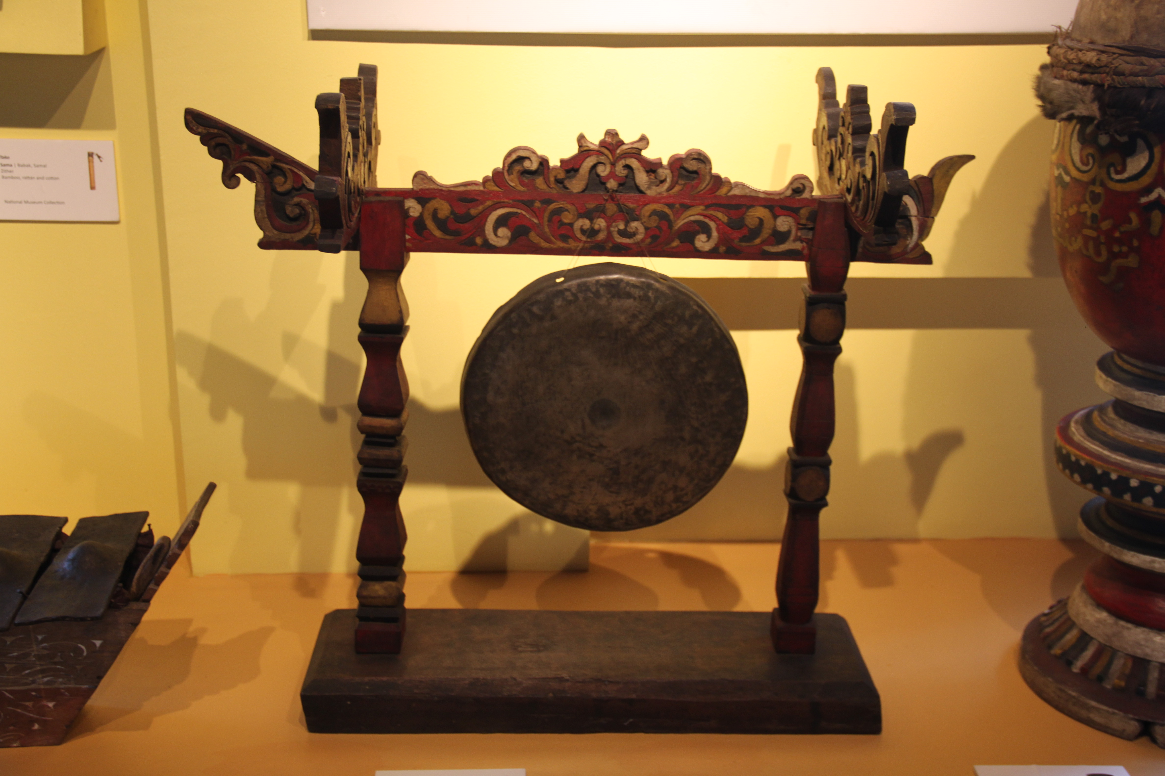 Bangsamoro and Lumad Cultures Gallery, Museum of the Filipino People, Rizal Park, Manila, Philippines. Complete indexed photo collection at .